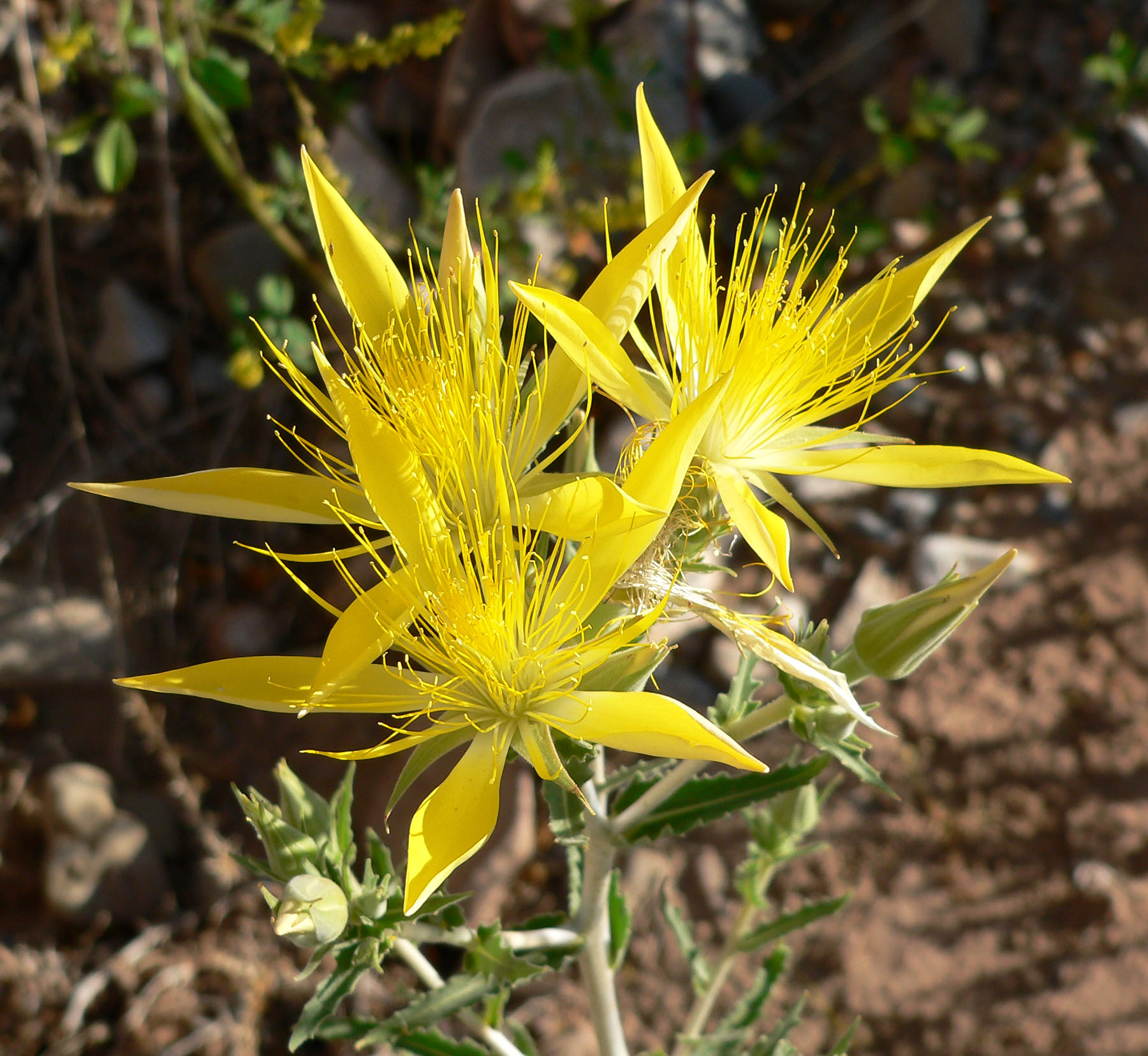 Mentzelia laevicaulis flowers close-up — in Lovell Canyon, Mojave Desert. In the Spring Mountains, southern Nevada